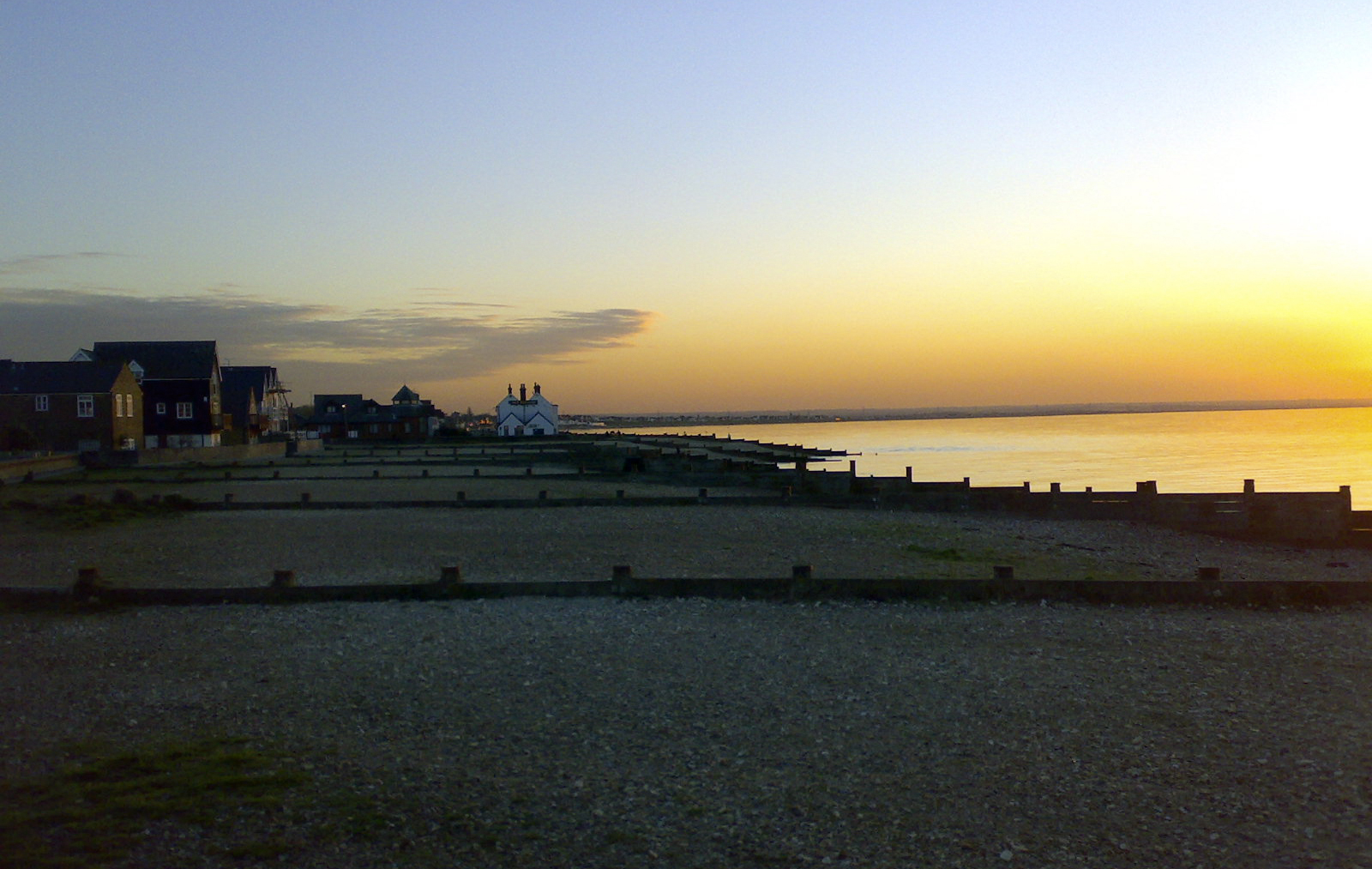 Whitstable beach in Kent, England, UK.